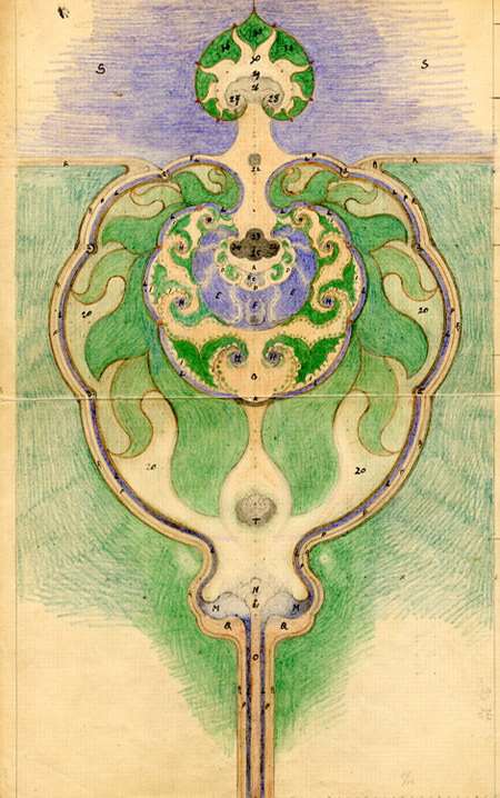 Weltkriegdenkmal. Coloured pencil on papier. Rotterdam, Netherlands Architecture Institute.